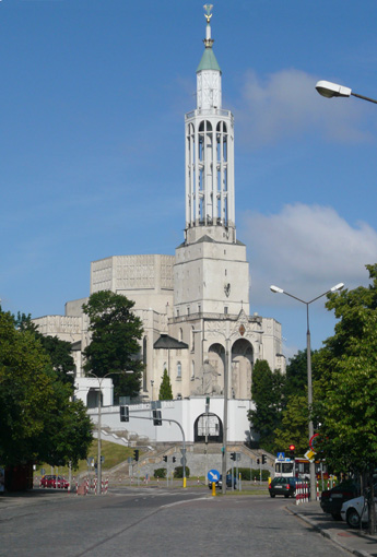 Main access - Białystok Kościół Crystusa Króla i św. Rocha (Church Christ the King and St. Roch) 1927